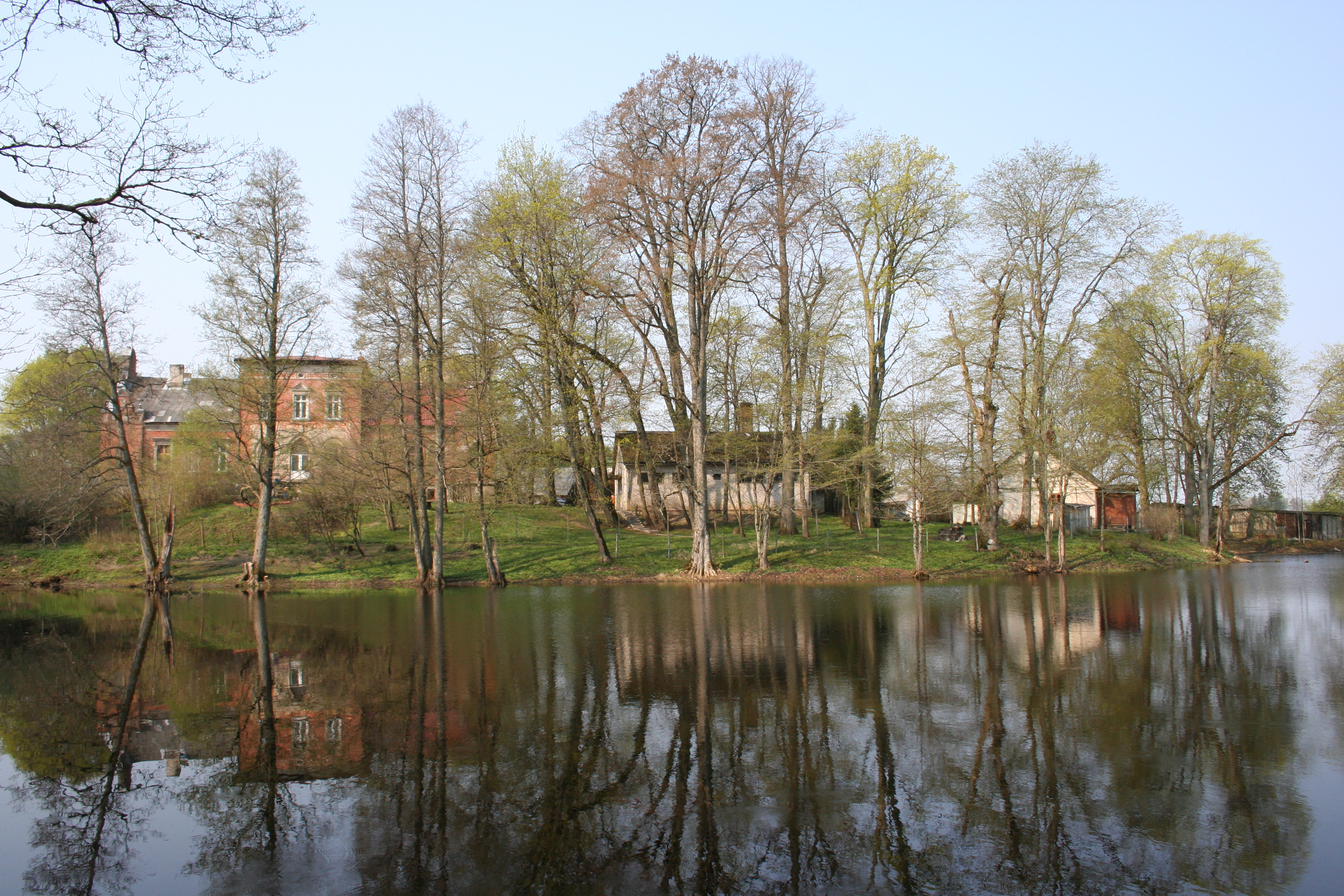 Reģi ManorLatviešu: Reģu muižas pils